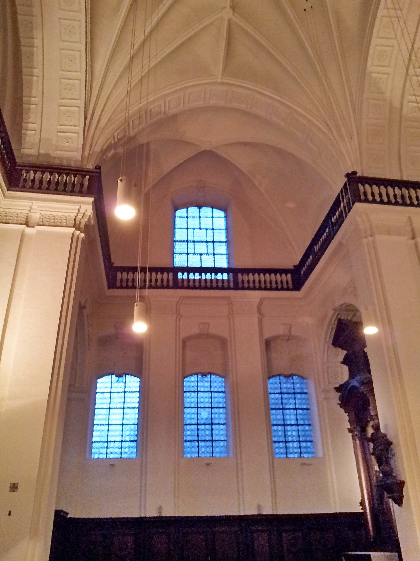 Baroque interior of the abbey church of Paix Notre-Dame in Liège, Belgium.